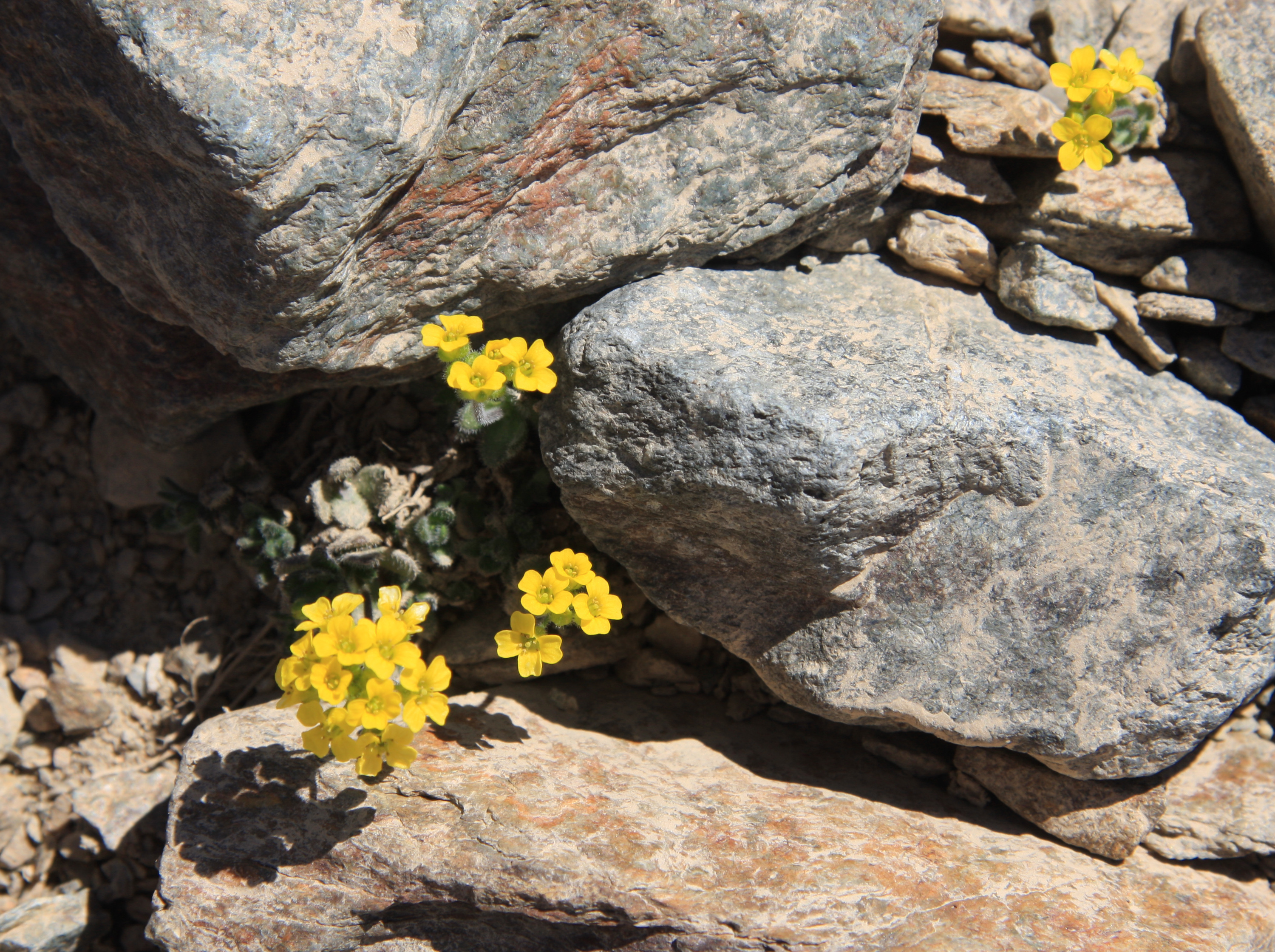 Lemmons draba (Draba lemmonii) clusters of 4-petaled flowers tucked among rocks. At 10,500ft above Frog Lakes in the Virginia Lakes valley, Hoover Wilderness, California.